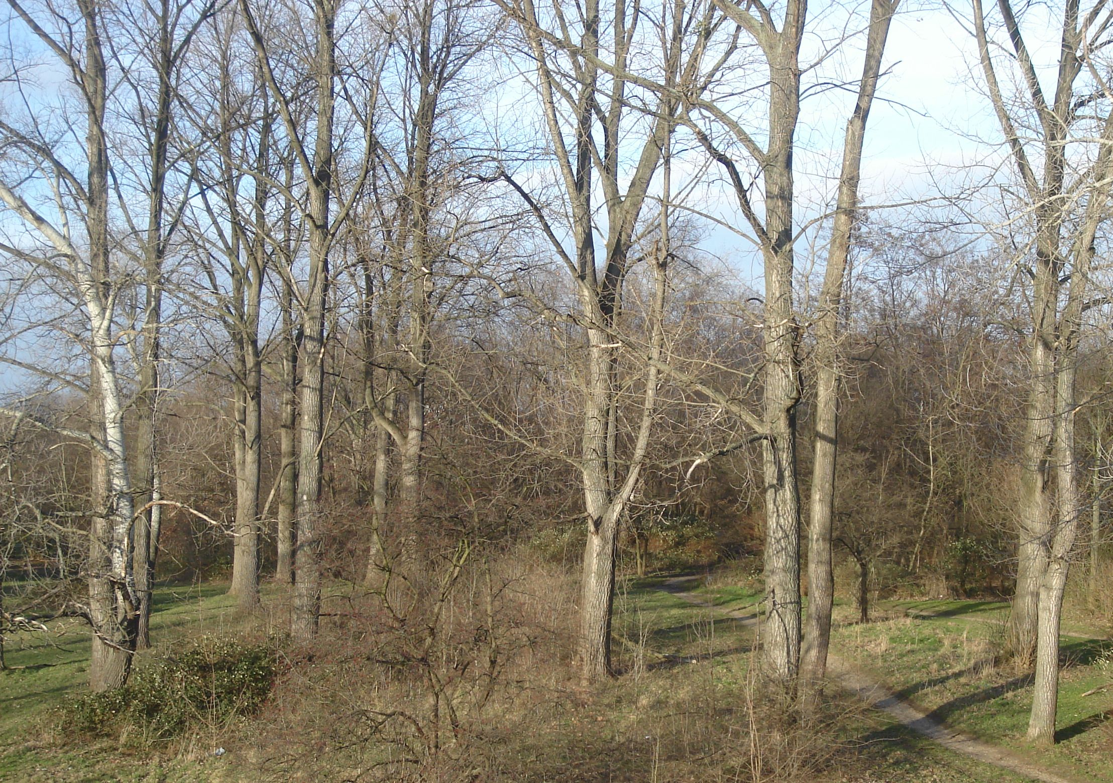 Die Düne (the dune) in Bonn-Tannenbusch, Germany.